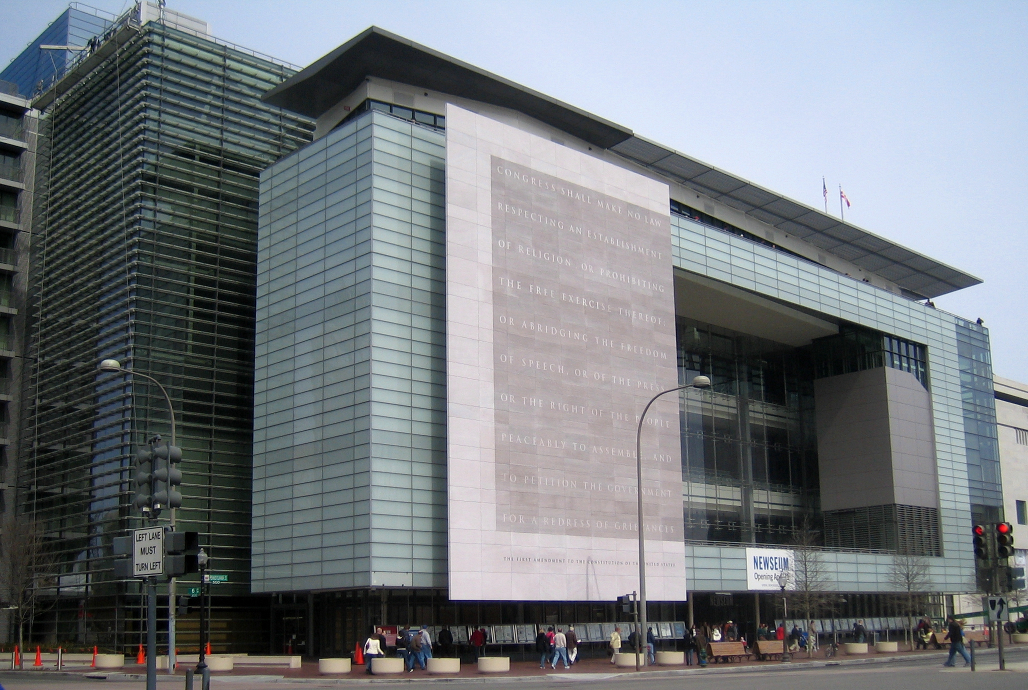 Newseum — Pennsylvania Ave. facade and entrance, in Washington, D.C.